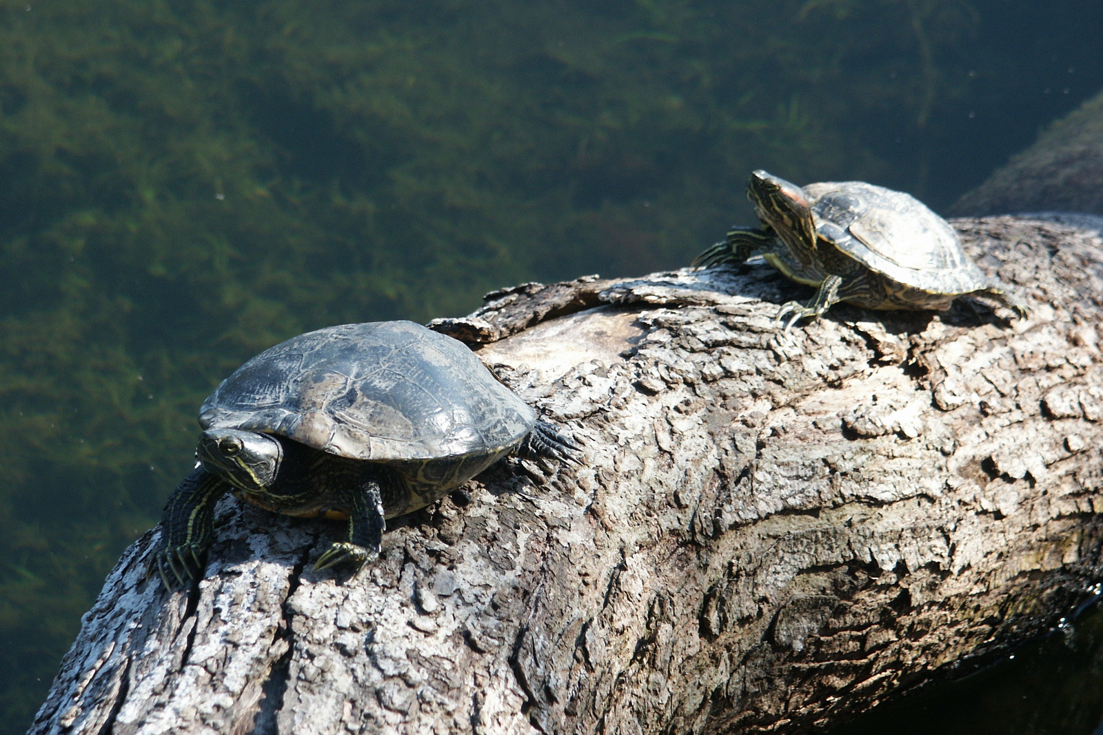 Turtels at Sandy Bottom Nature Park